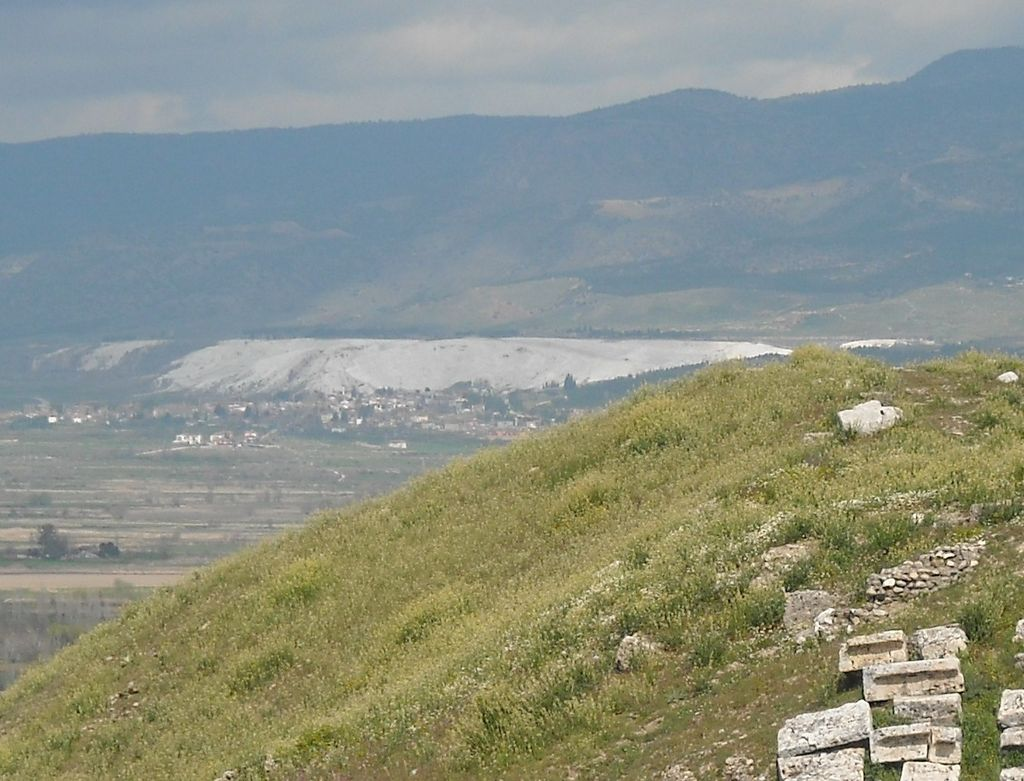 Laodicea - Lycos valley from the theater - In the background : Pamukkale